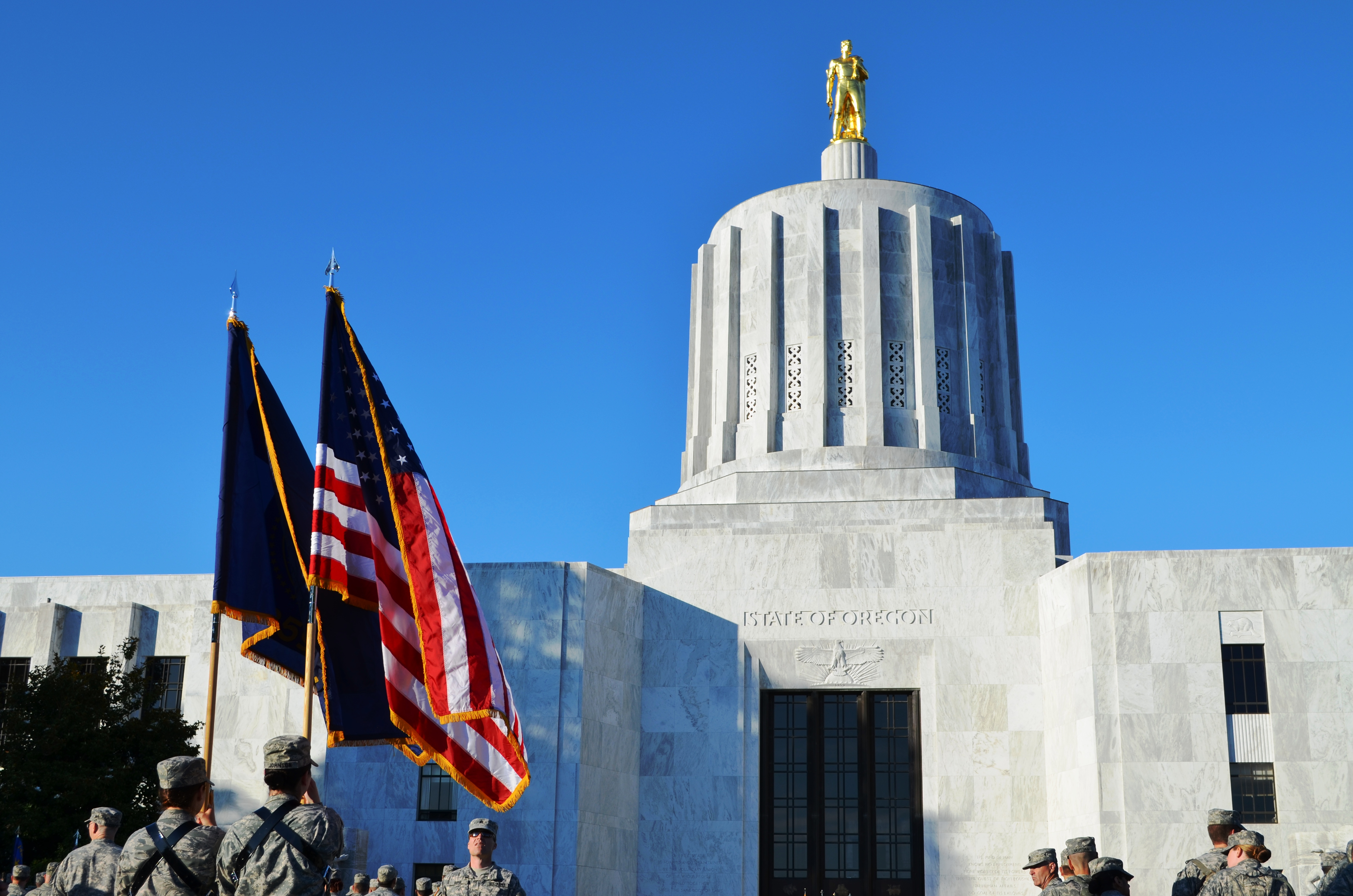 Oregon National Guard at the Oregon State Capitol